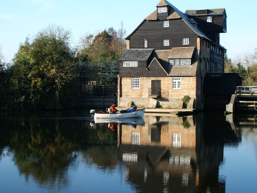 Houghton Mill